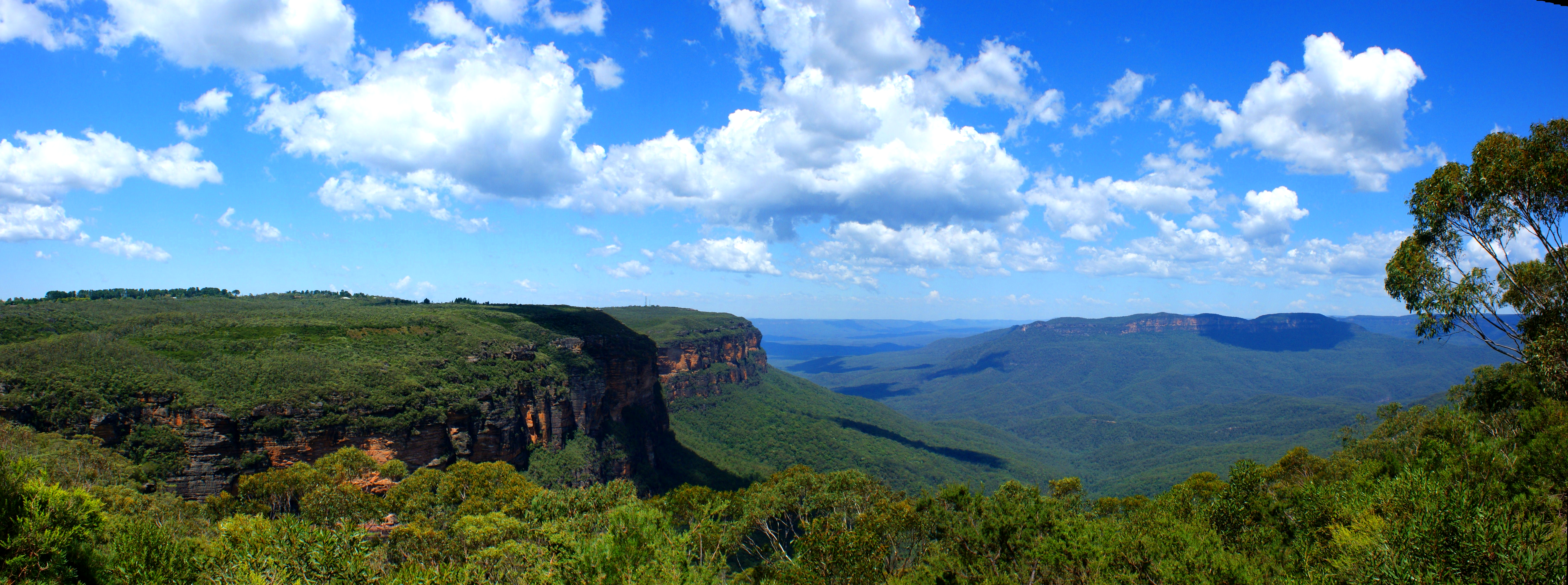 Blue Mountains Australia